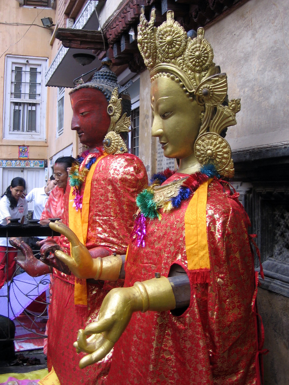 Statues of Dipankar Buddha (Bahidyah) on display during the holy month of Gunla in Kathmandu, Nepal.